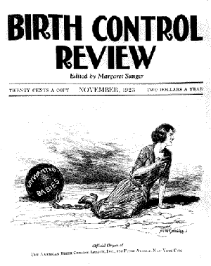 Cover of Birth Control Review magazine